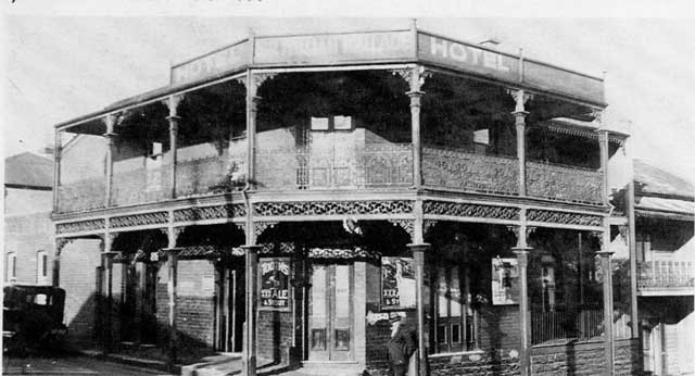 Sir William Wallace Hotel c1930.